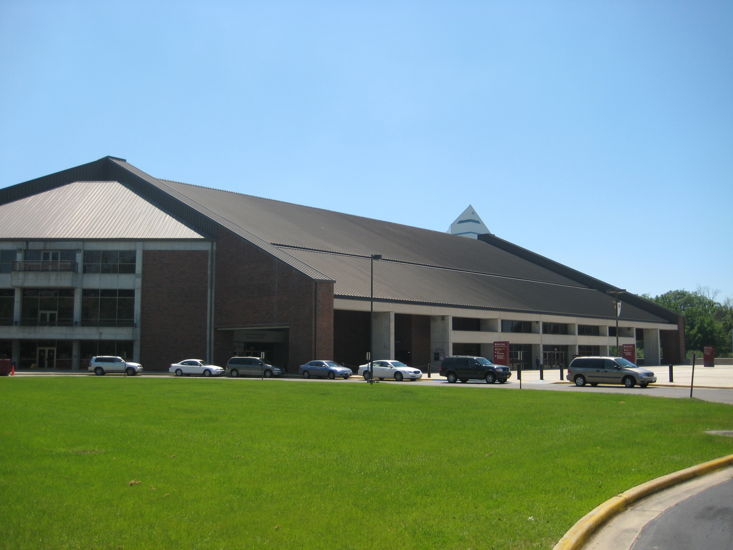 The Donald L. Tucker Center, home of the Seminoles.